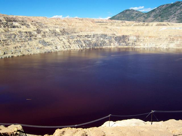 Panoramic of Berkeley